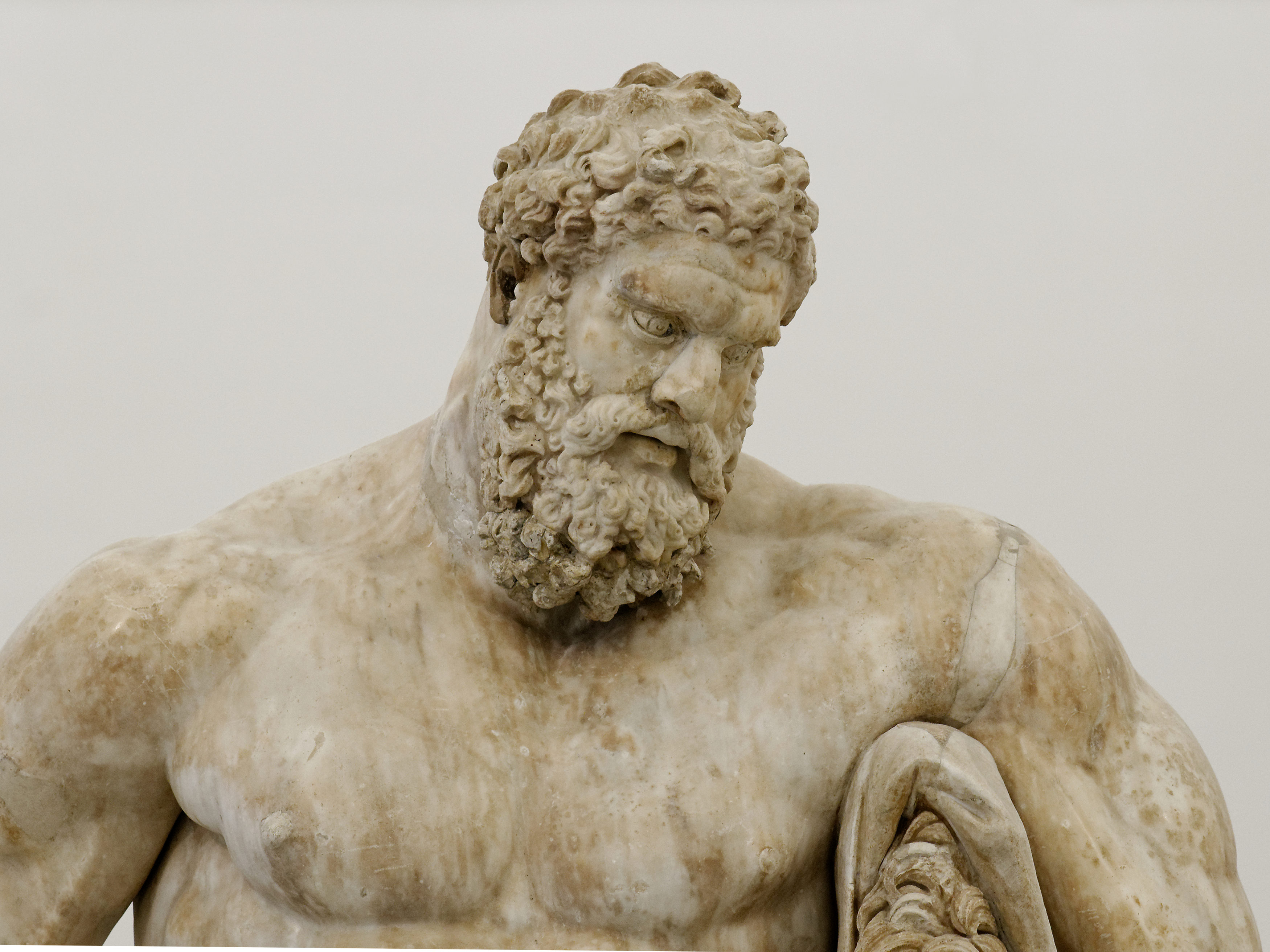 Statue of Herakles at rest carrying fruit in his right hand, detail of the upper body. Roman copy of the Imperial era after a Greek original of the Early Hellenistic era; the left forearm is restored in plaster.